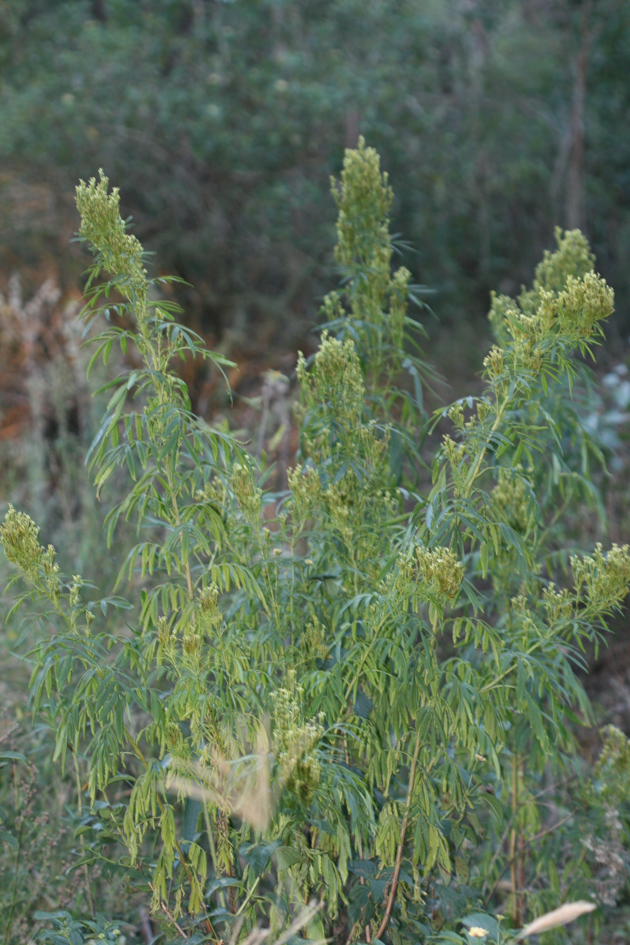 Stinking Roger (Tagetes minuta) an introduced weed near Toowoomba, Queensland, Australia. Photographed on 1 May 2009.